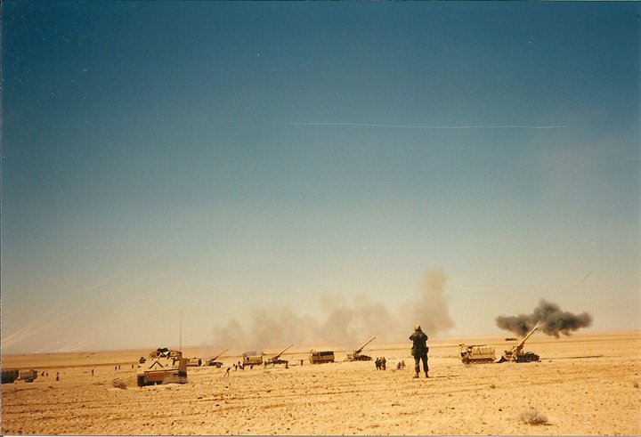 2nd Battalion, 142nd Field Artillery Conducts Fire Mission In Support of Operaiton Desert Storm.